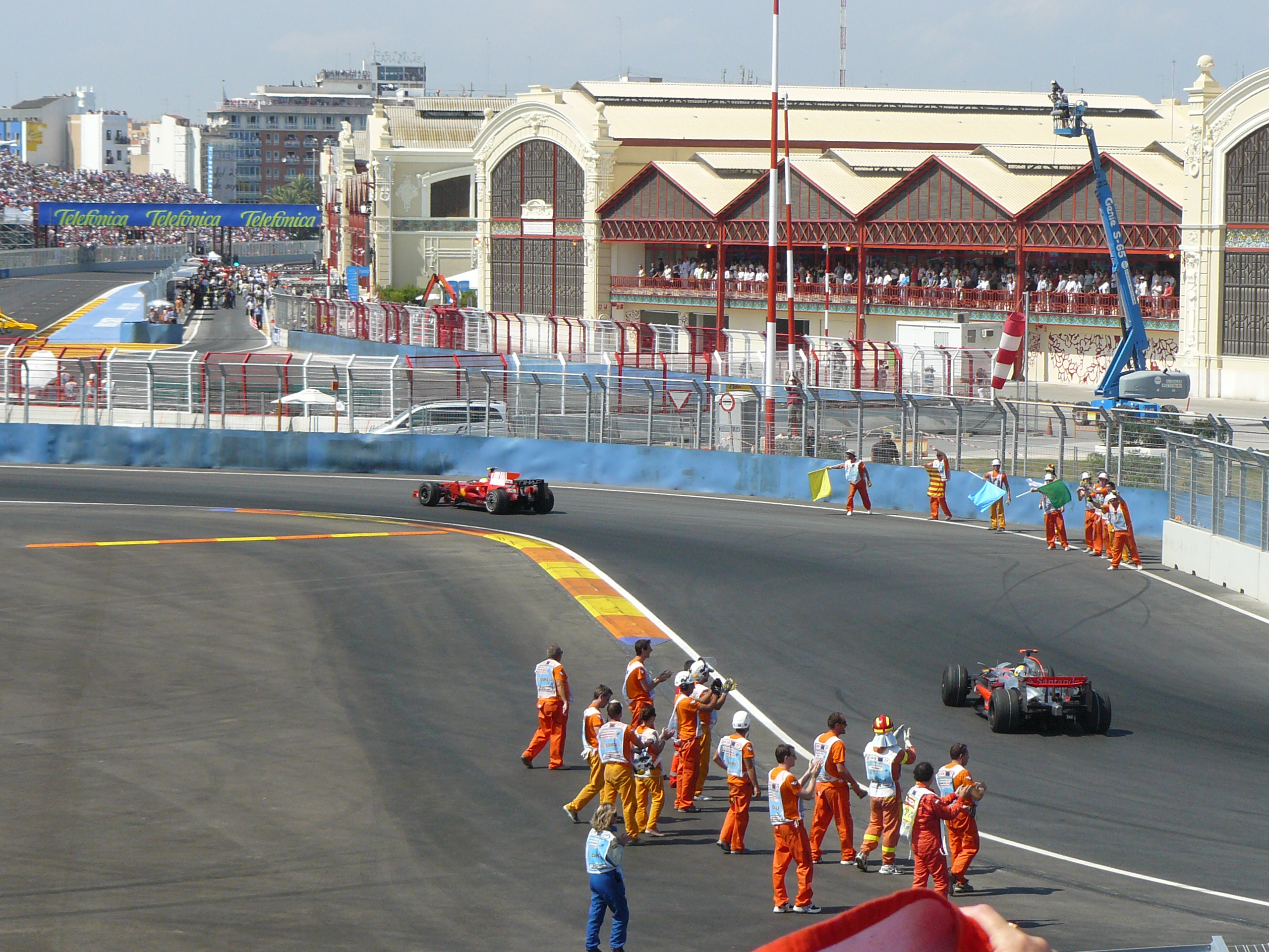 Felipe Massa, Ferrari & Lewis Hamilton, McLaren - Formula 1 Grand Prix of Europe, Valencia Street Circuit, Spain, August 2008